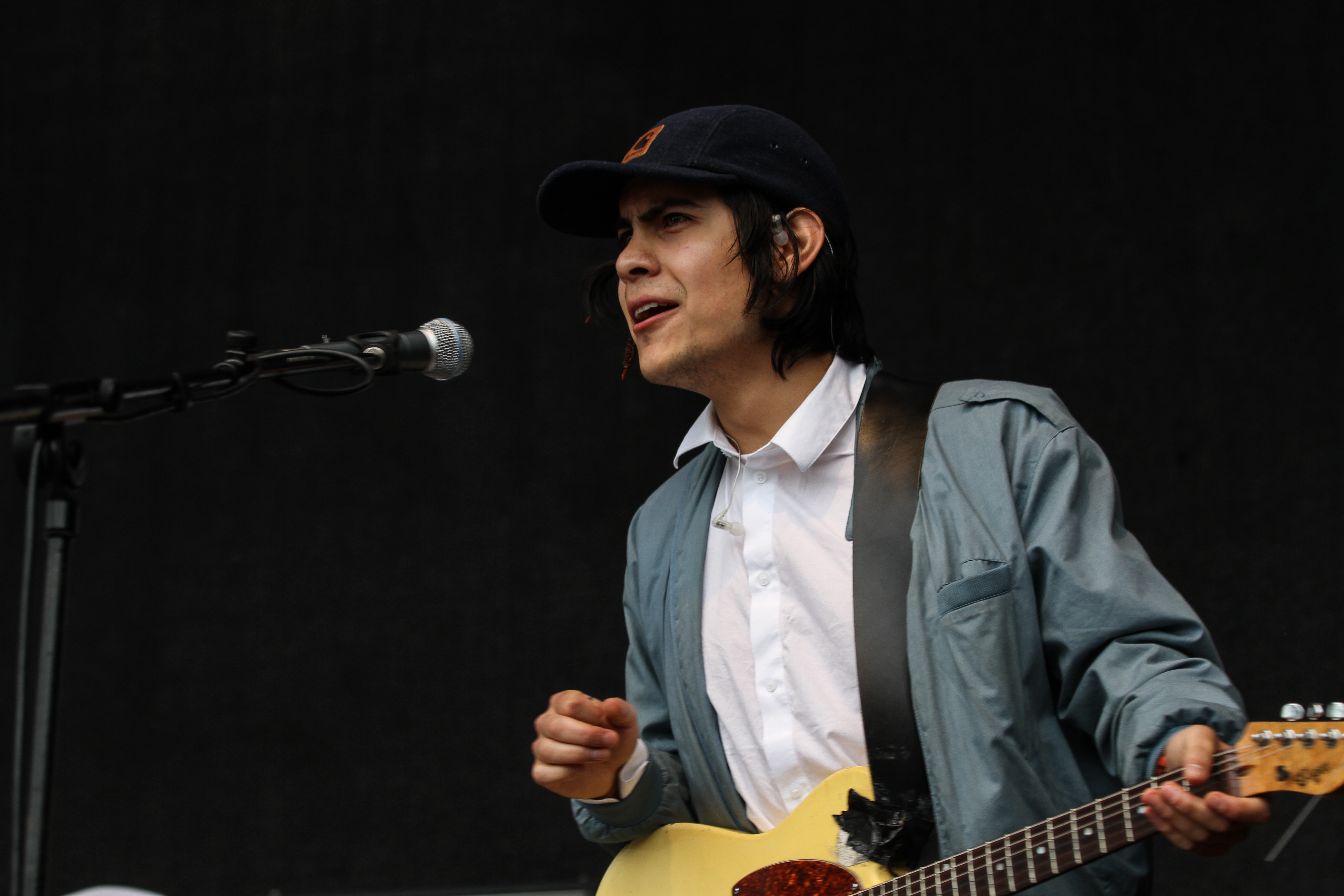 Festivalsommer This photo was created with the support of donations to Wikimedia Deutschland in the context of the CPB project "Festival Summer".